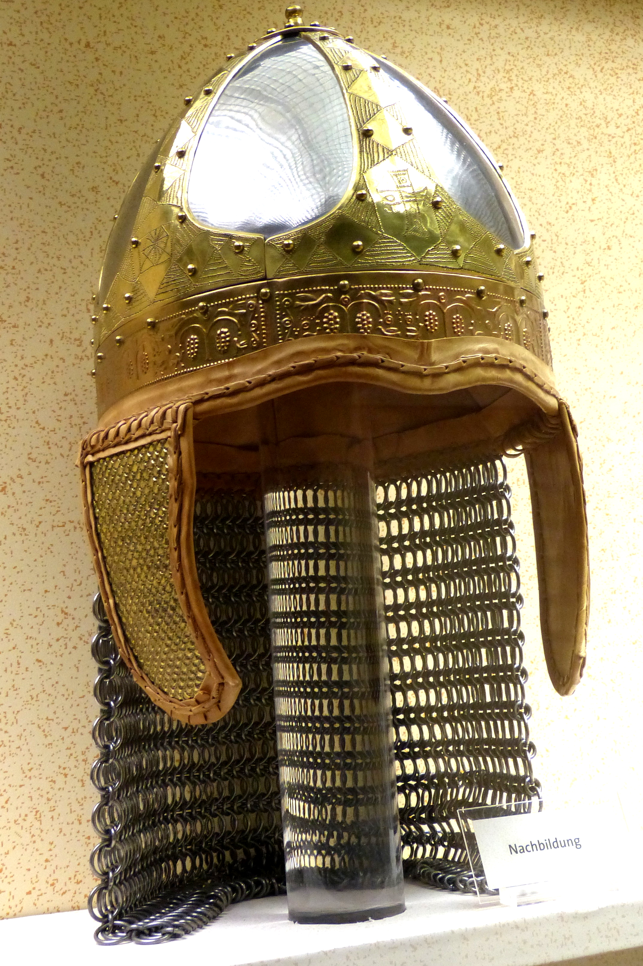 Weimar ( Thuringia ). Museum for Prehistory in Thuringia: Byzantine helmet ( so called "Spangenhelm ) from Stößen.